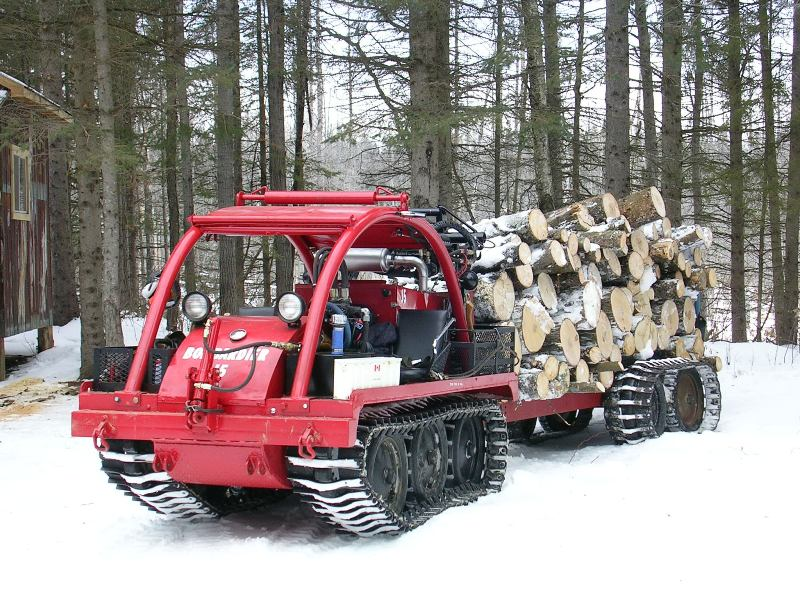 This is a Bombardier J5 Muskeg tractor, with an un-powered Bombardier Muskeg trailer. Both have been restored. The Muskeg tractors, of which there are several models, are heavily built machines designed for work on soft or rough ground and modest swamp, bog or snow conditions. The excel as woodland workhorses and are still produced today by the Camoplast company which purchased the Bombardier commercial snowcat division.